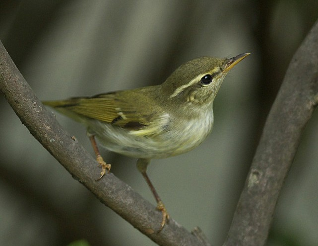 Winter visitor, taken at C.K.S. Memorial Hall, Taipei.